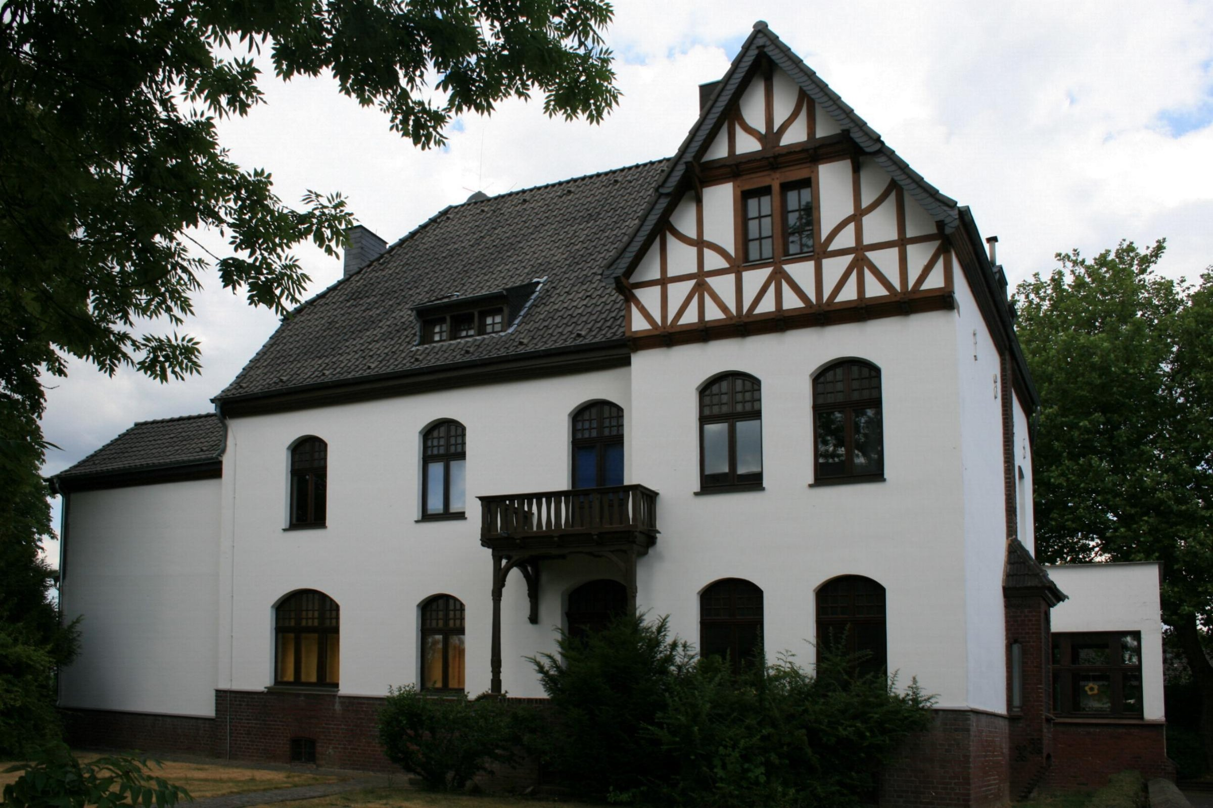 Cultural heritage monument No. B 021 in Mönchengladbach